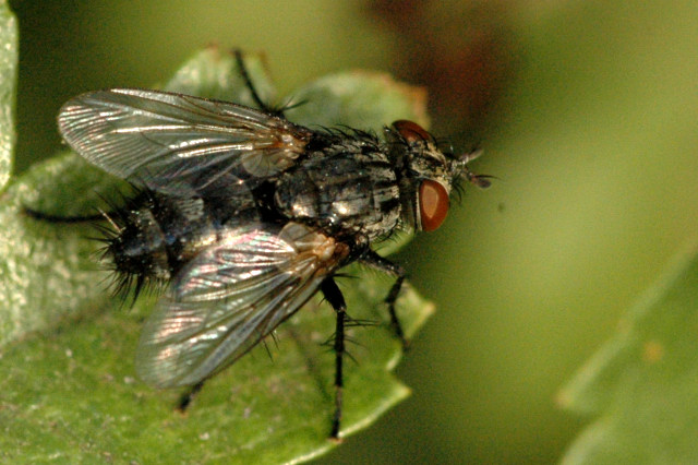 Picture taken in Commanster, Belgian High Ardennes . Species: Exorista larvarum